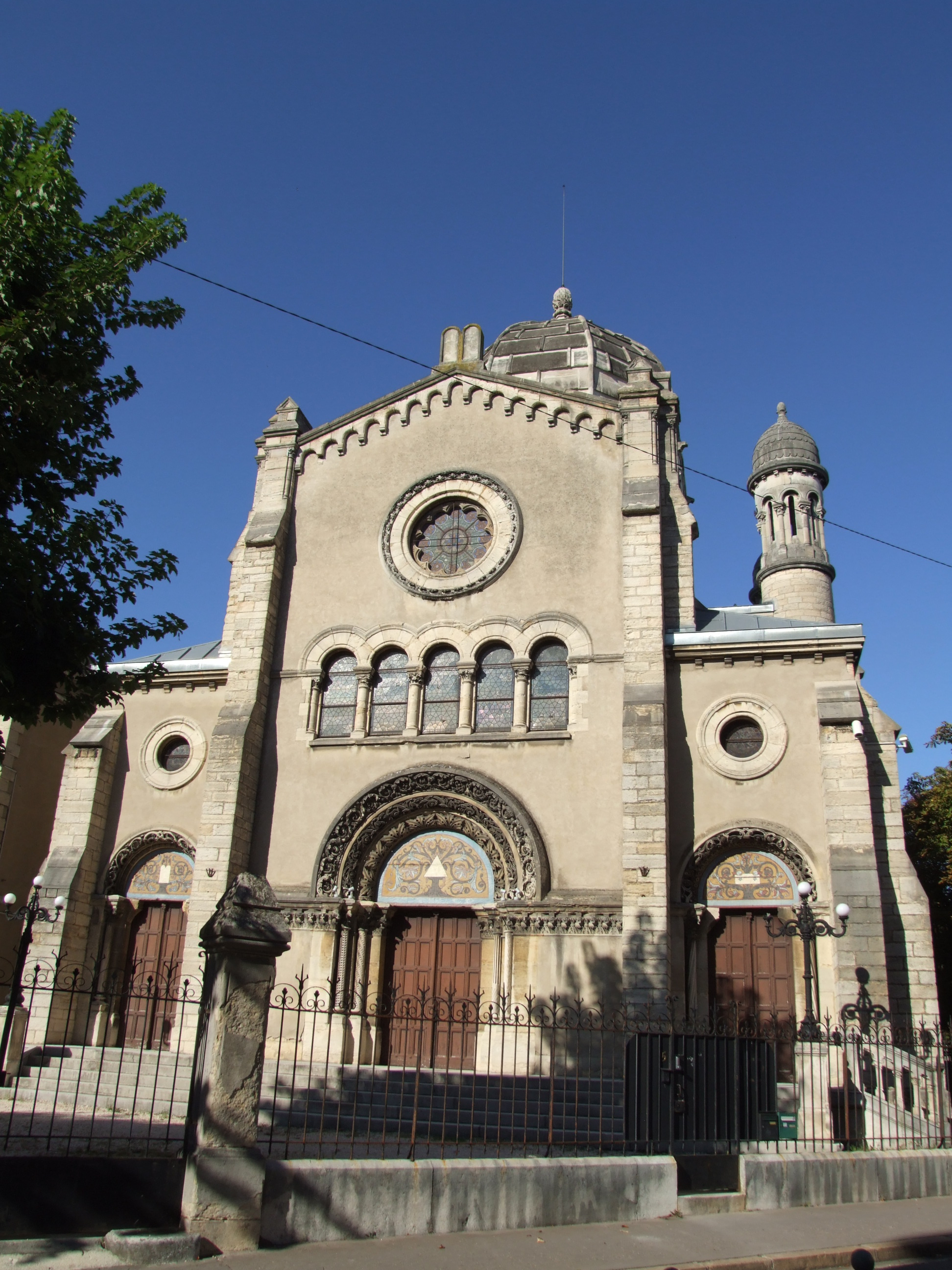 Dijon, Burgundy, France